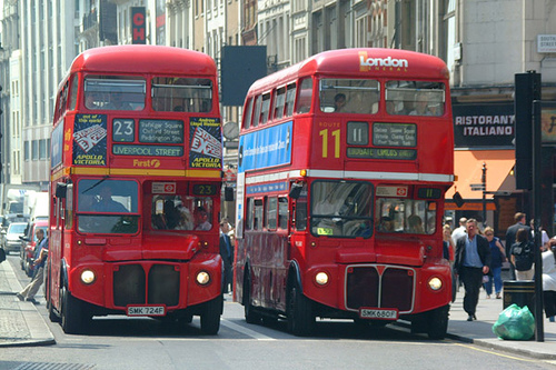 Two Routemaster buses, pictured heading east along Strand, London, waiting for the traffic lights at the corner with the (pedestrianised) Southampton Street (to the right). The top of the sign for the Chicago musical at the Adelphi Theatre. On the left is First Centrewest RML2724 (reg. SMK 724F) operating route 23 en route to Liverpool Street, while on the right is London General RML2680 (reg. SMK 680F) operating route 11 en route to Ludgate Circus. Note that the date of the photograph (2005-12-04 19:07) is incorrect, as Routemasters were withdrawn from Route 11 on 31 October 2003 and from Route 23 on 14 November 2003.